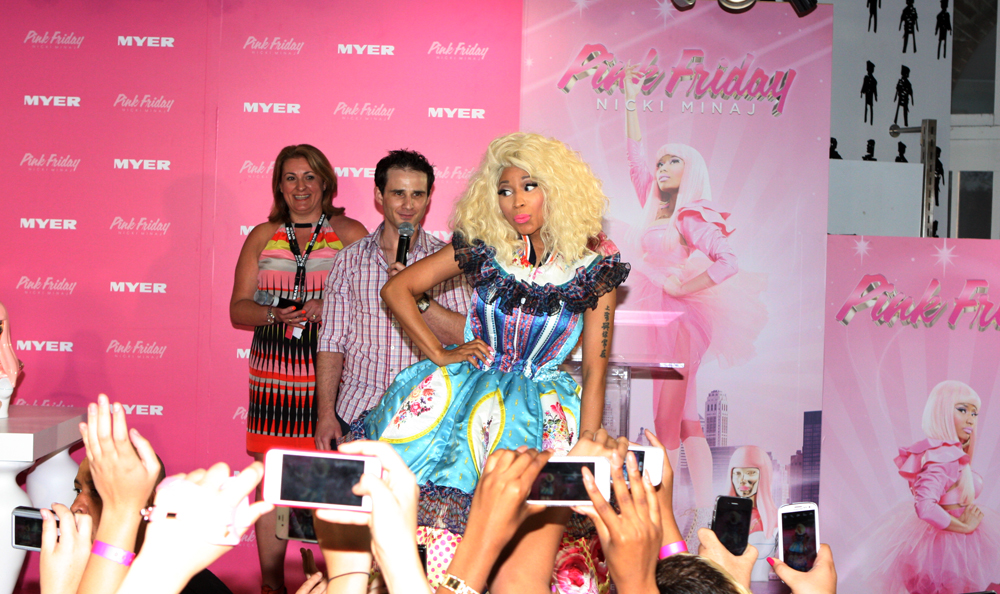 Performing artist Nicki Minaj launches 'Pink Friday' perfume - Sydney, Australia; Myer City store...